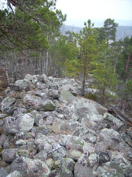 Ramundersborg, a prehistoric stronghold from the Iron Age in Östergötland, Sweden.